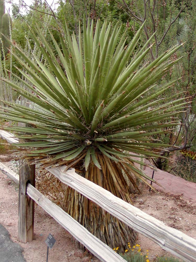 Photo of Yucca faxoniana (faxon yucca) at the Desert Demonstration Garden in Las Vegas